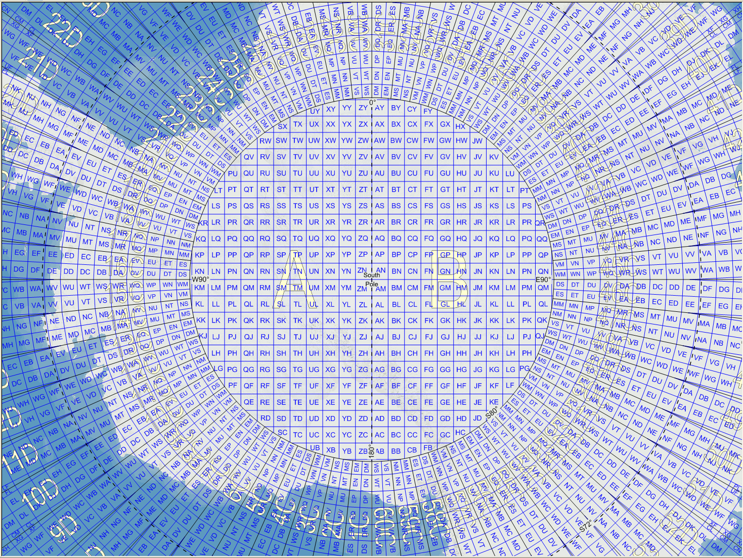 Map of the Military Grid Reference System (MGRS) around the South Pole, with the AA lettering scheme for the 100 km squares north of 80°S.